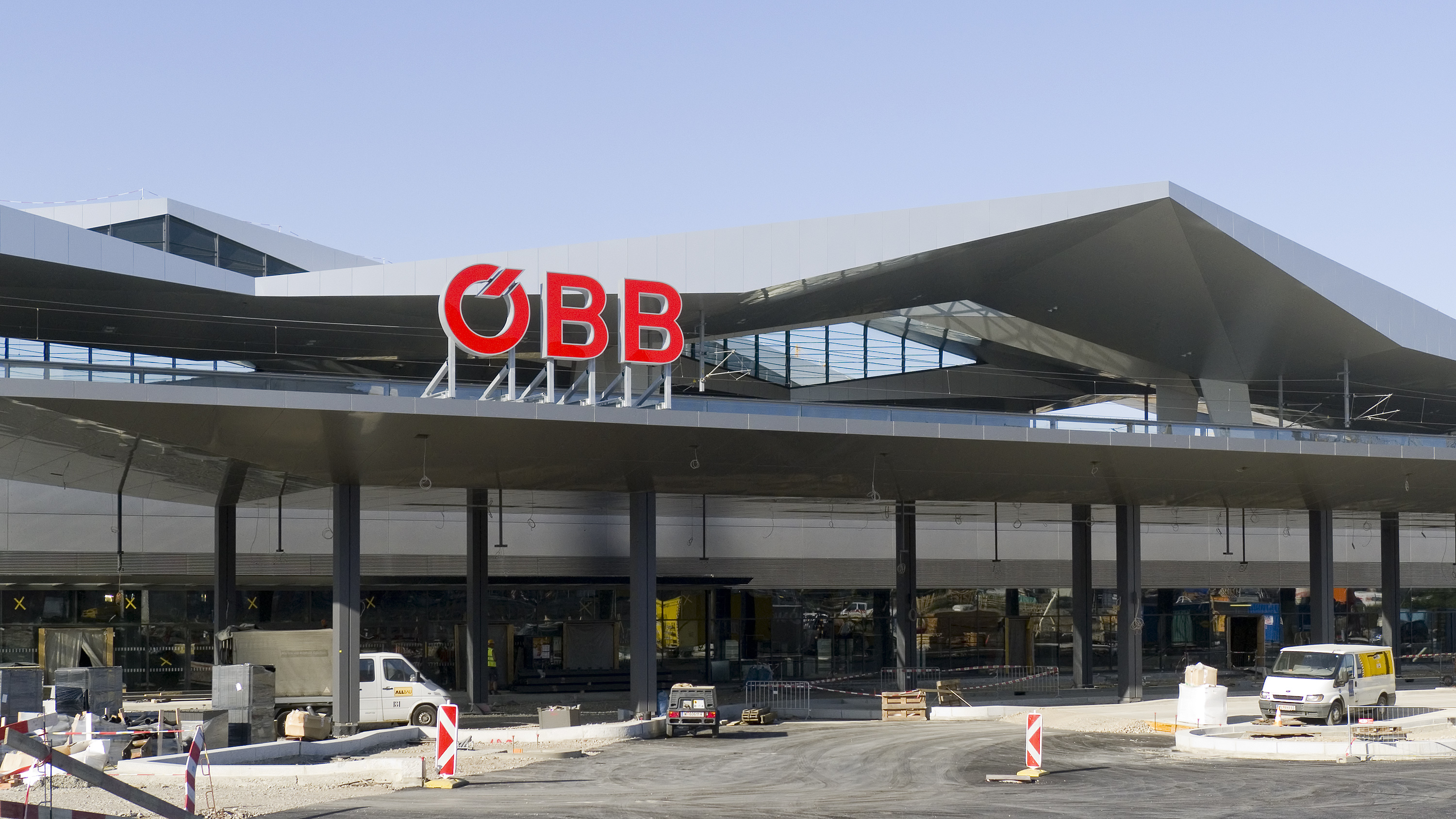 Future railway station Wien Hauptbahnhof in August 2012 in Vienna 10